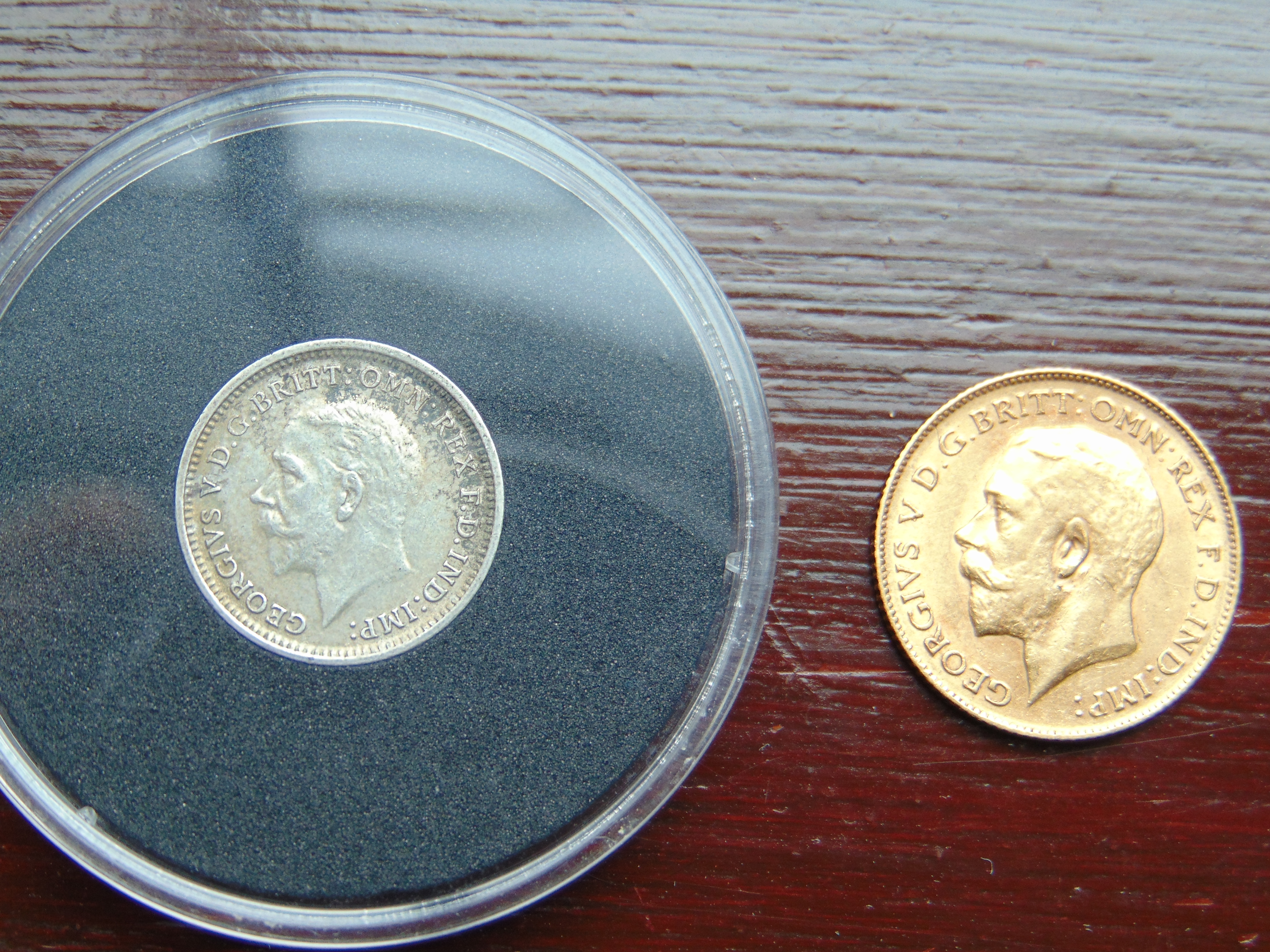 In 2019, the London Mint Office authorised and oversaw the sale of approximately 120,000 silver threepences dated to King George V's reign; a George V half sovereign is included for scale.